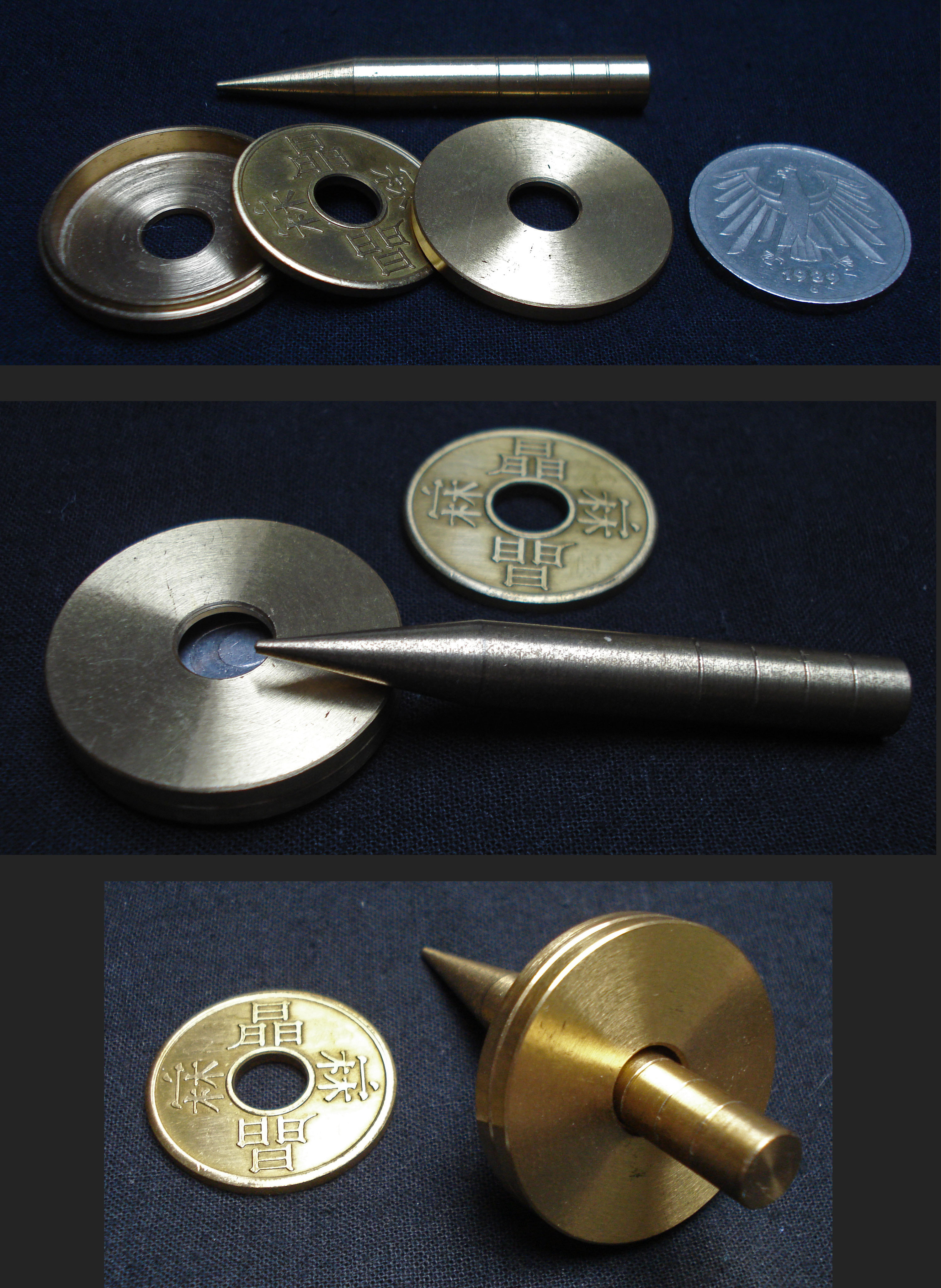 Close-up-magic: Penetration of a solid coin with a solid metal spike.